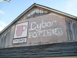 Bybee Pottery Sign